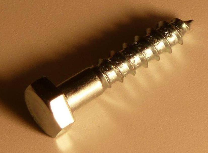 wood screw. *Publish by= User:Stephane8888 Self made